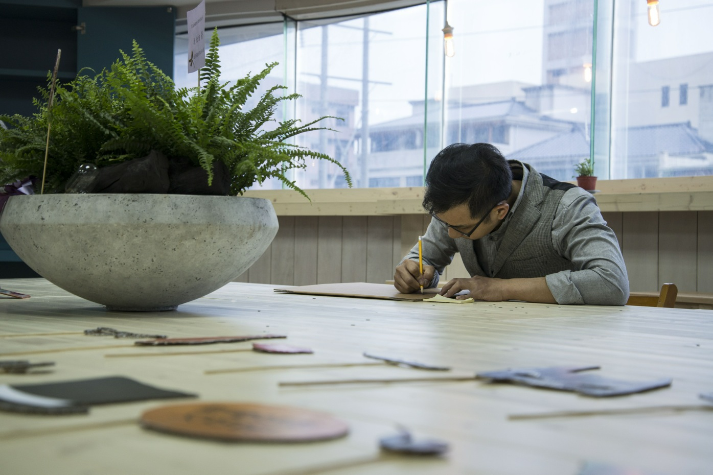 CreatiVasia Space, a cultural-orientied coworking space in Taiwan, Taichung.